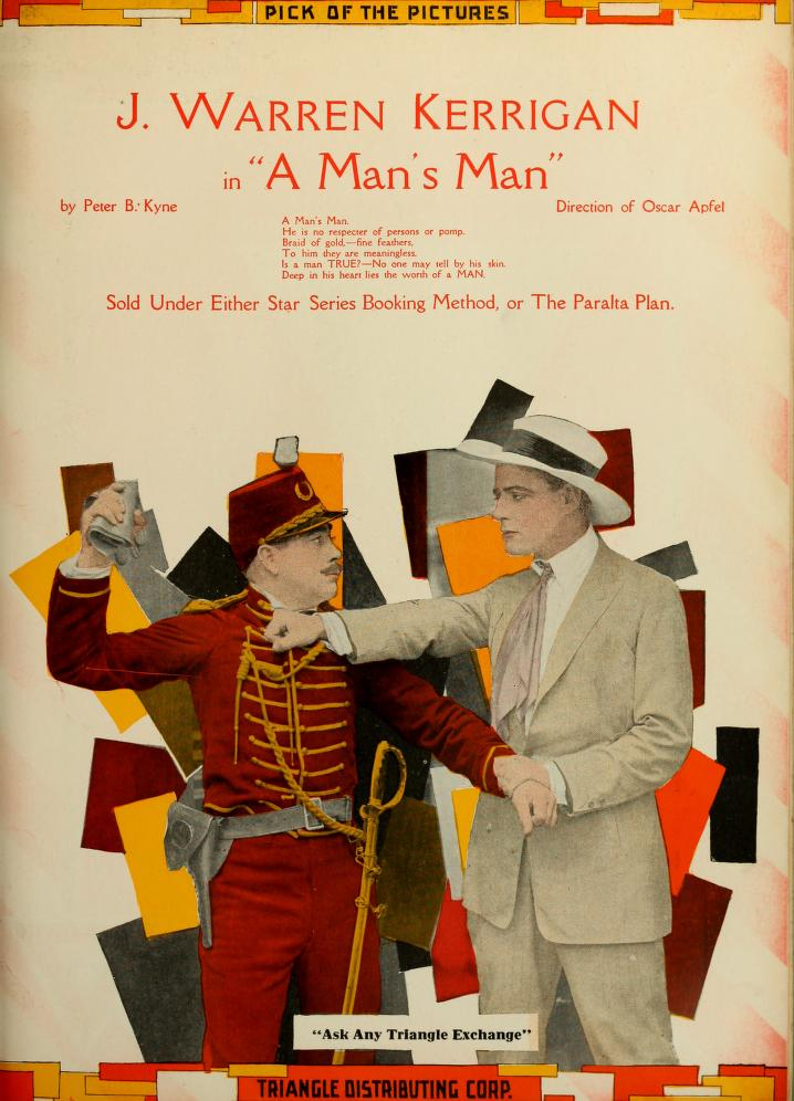 Advertisement in Moving Picture World for the American film A Man's Man (1918) with J. Warren Kerrigan.